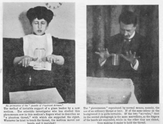 William Marriott reveals the trick of the medium Stanislawa Tomczyk's Levitation of a Glass Tumbler